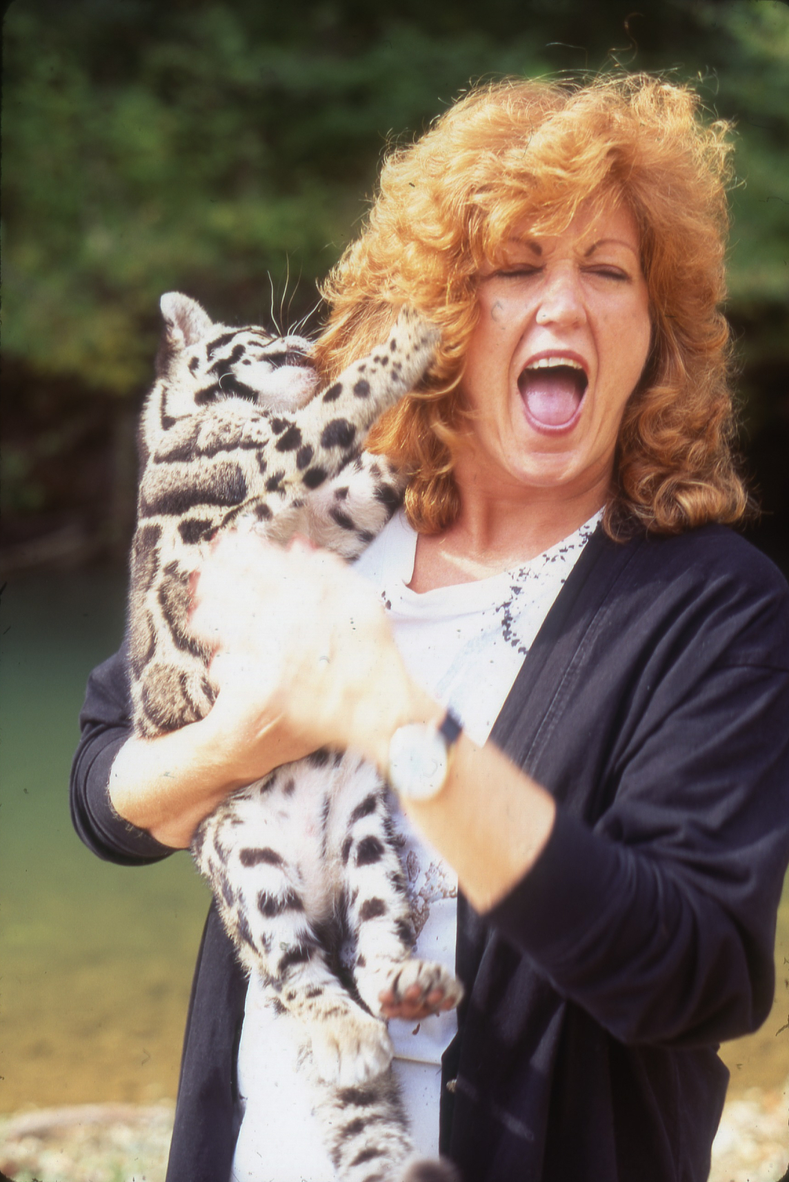 A clouded leopard cub born via artificial insemination plays with veterinarian JoGayle Howard's hair as she attempts to pose for the camera at the National Zoological Park. Howard was a specialist in reproductive biology for endangered species. Image ID# Acc 17-101, Box 10, Folder 45, SIA2017-023033